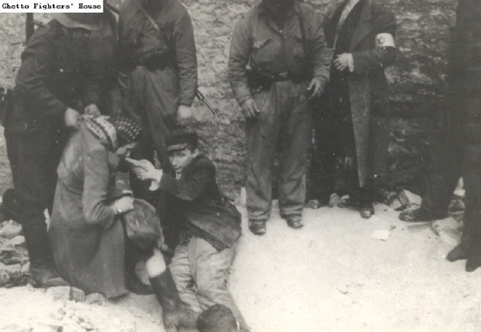 The Jews are being pulled out of the bunkers by Wehrmacht sappers and SS troops.